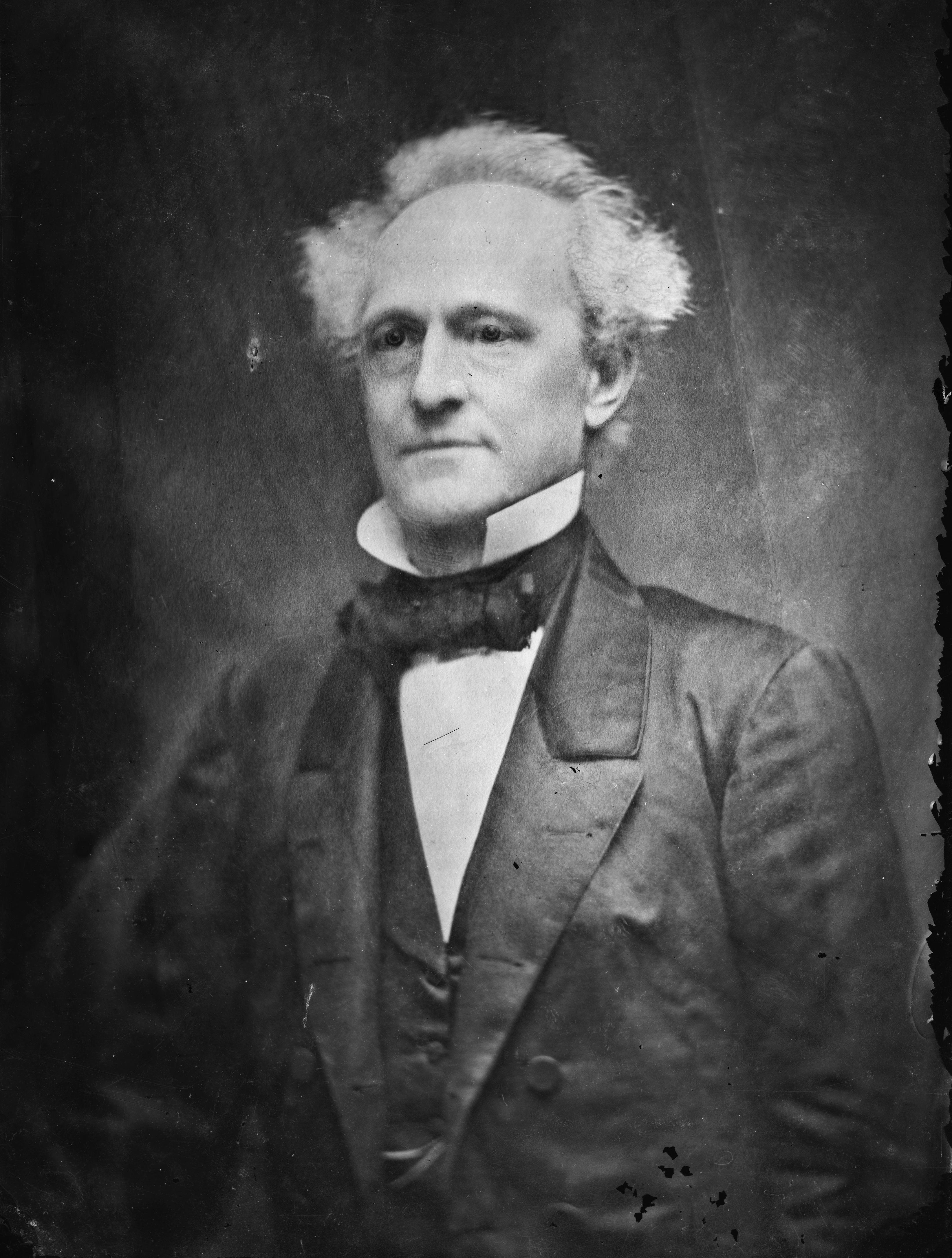 William Orlando Butler. Library of Congress description: "Butler, Hon. Wm."